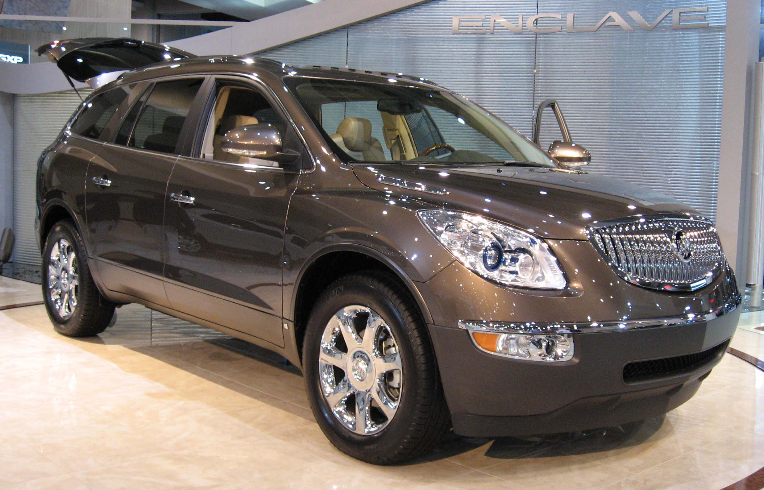 2008 Buick Enclave photographed at the Washington Auto Show.